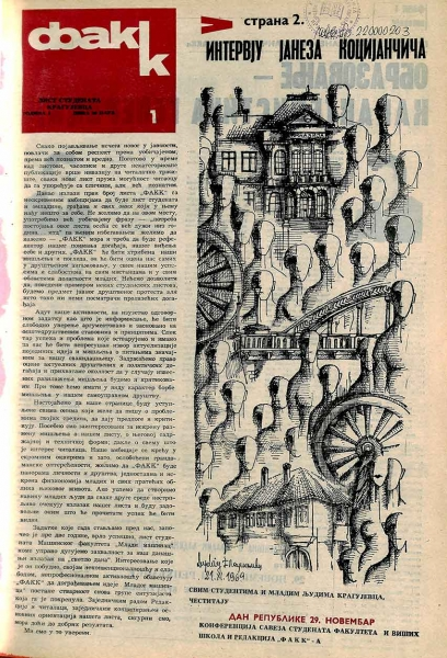 Front page of the first issue of FAKK 1969.